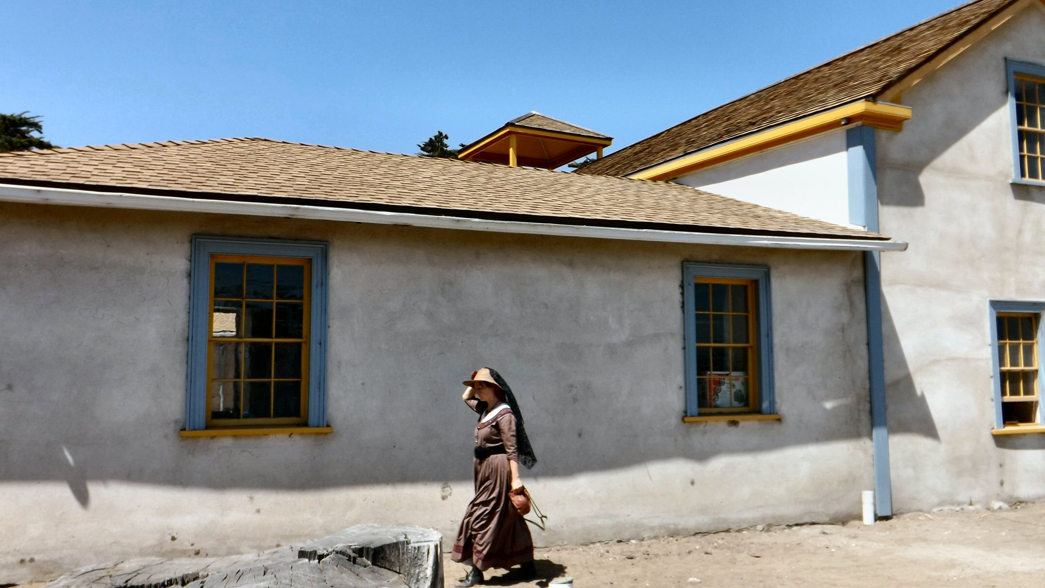 A re-enactor, dressed in period costume, walks along the side of the newly restored Dana Adobe in Nipomo. Taken during a visit when the Heritage fiesta was being held.